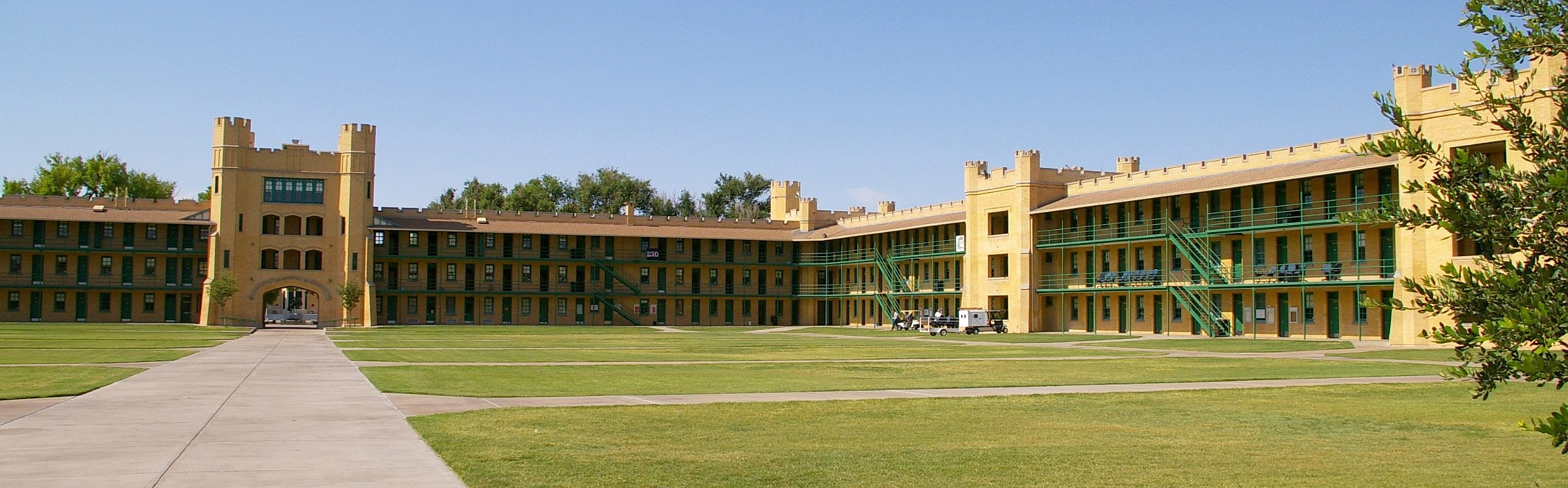 A view of the inside of the Box looking towards the south Sally Port.